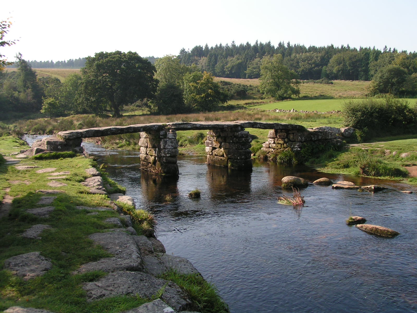 Postbridge Clapper Bridge. The Clapper Bridge at Postbridge, dating from the thirteenth century. Three huge slabs of granite on stone piers span this part of the East Dart on the old packhorse rout between Plymouth and Mortonhampstead. The bridge is a few yards south of the turnpike bridge which carries the B3212 and is a popular stop off for visitors.